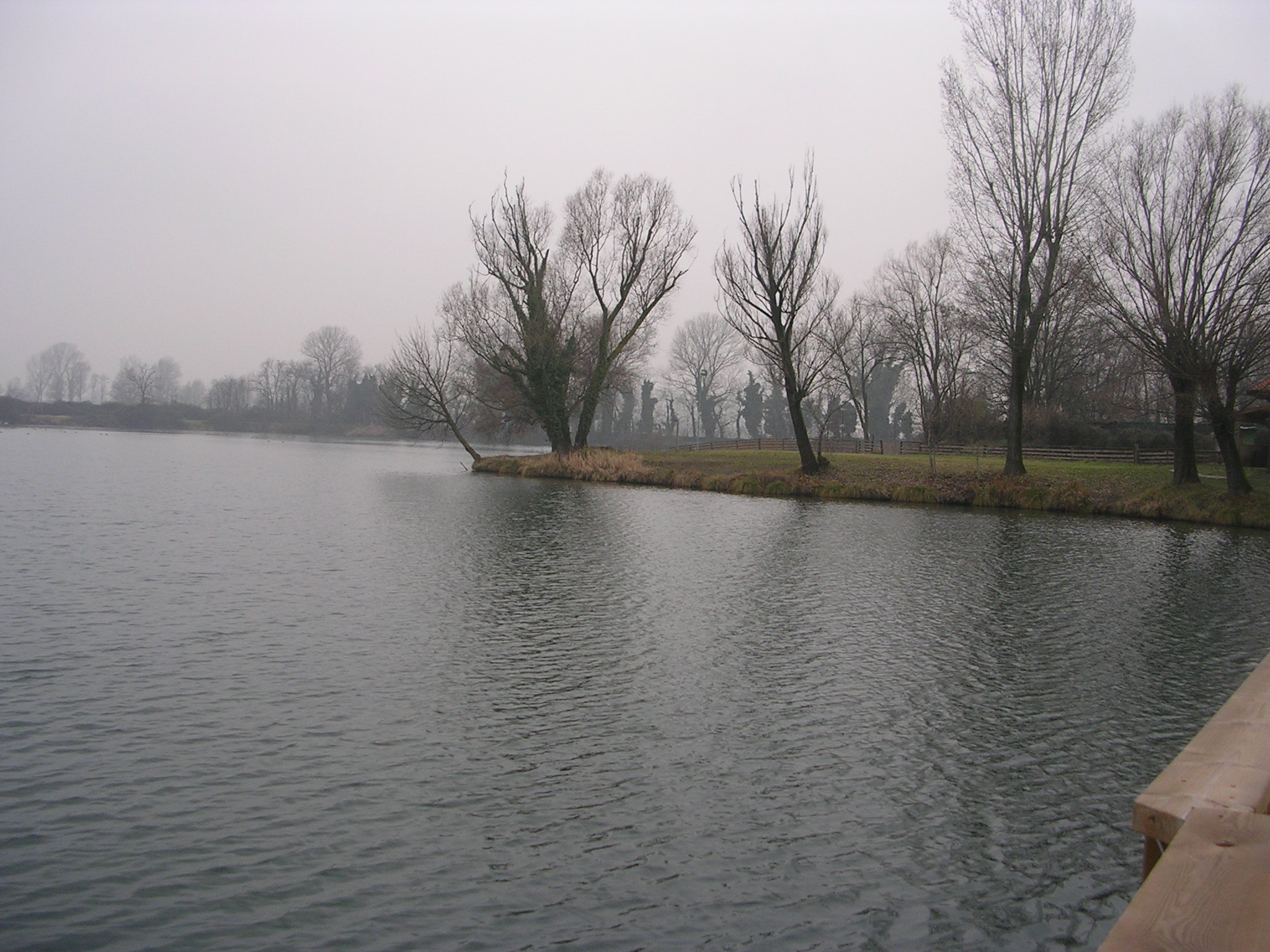 Lake Santa Maria, in Gudo Gambaredo, Buccinasco (MI)